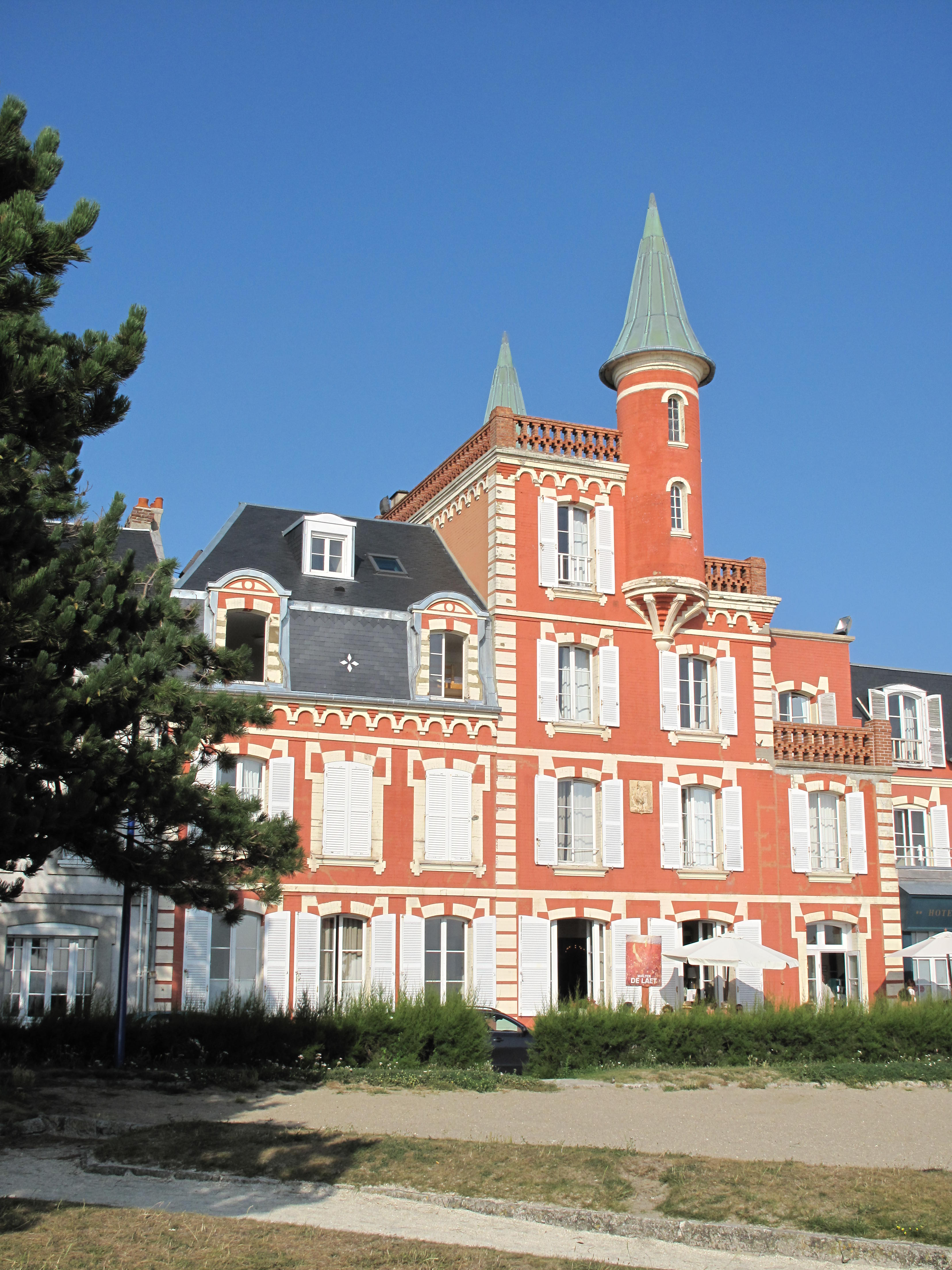 Pink villa in le Crotoy, Somme, in the north of France